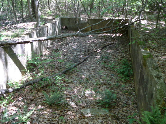 Concentrate bin ruins at the American Agricultural Chemical Company in the Cabin Branch Pyrite Mine Historic District in Prince William Forest Park, Prince William County, Virginia, USA